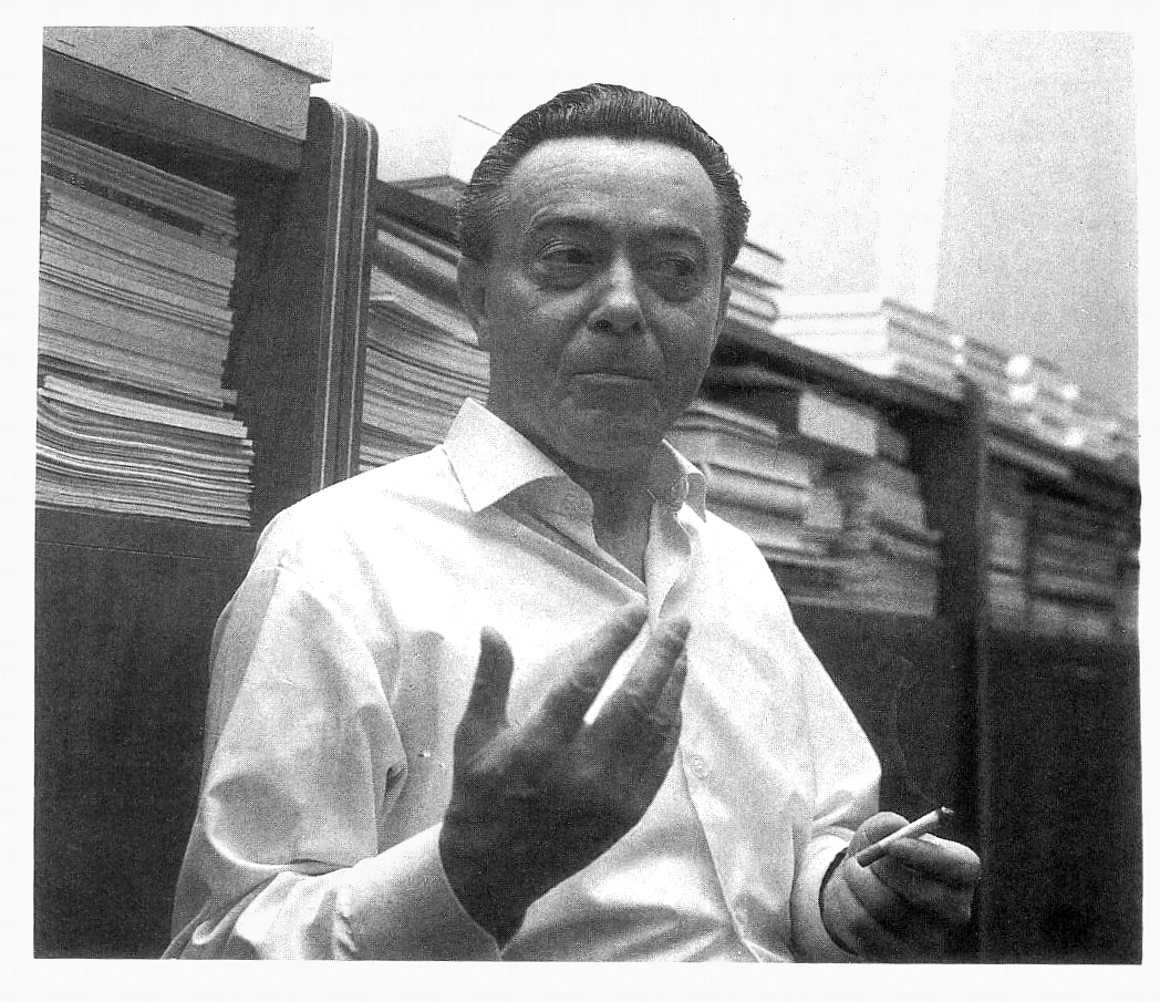 Lajos Lengyel (1904-1978) Hungarian grahic artist